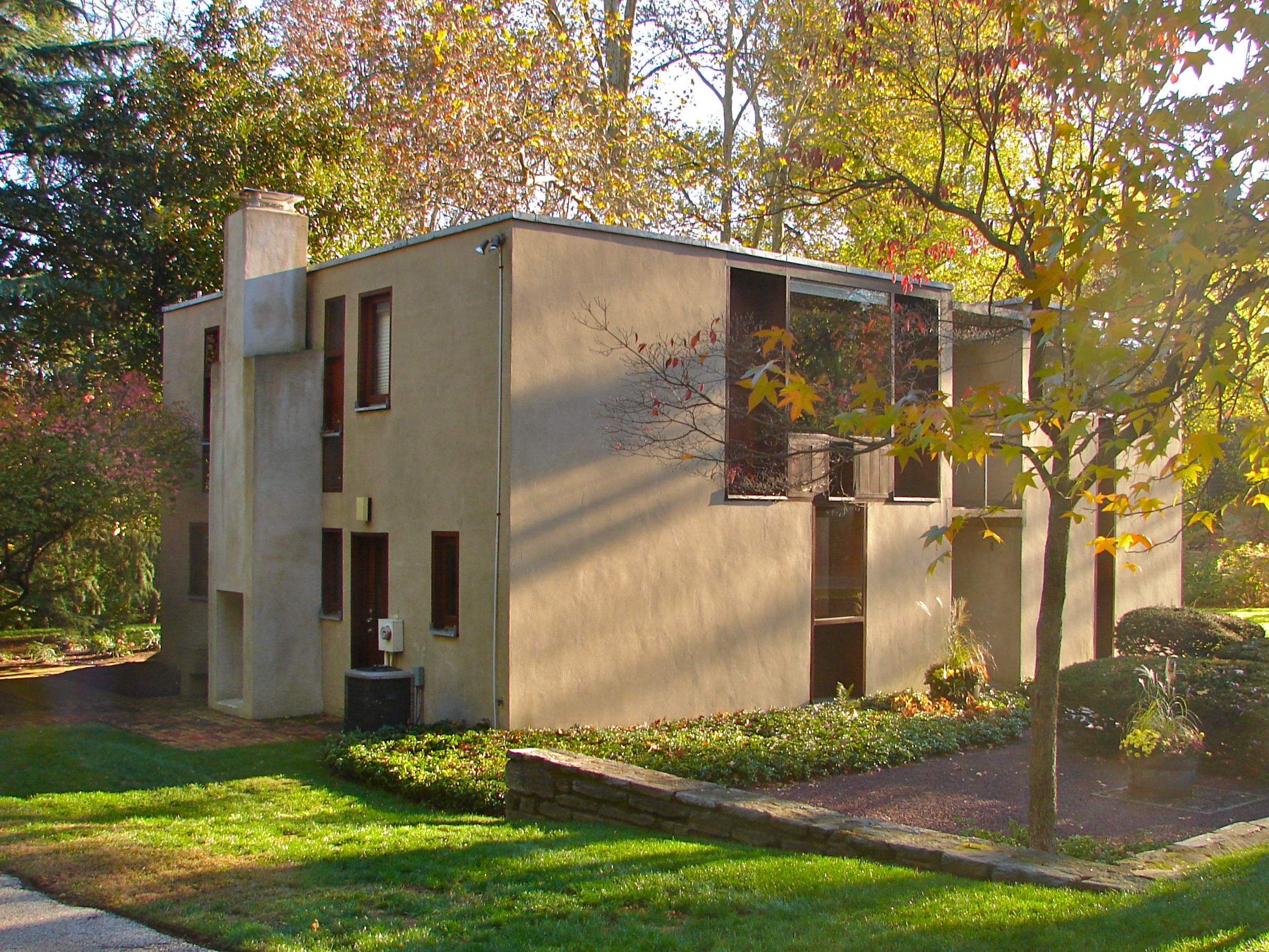 Esherick House designed by Louis Kahn. Located at 204 Sunrise Lane, in the Chestnut Hill neighborhood of Philadelphia, about a block from Pastorious Park